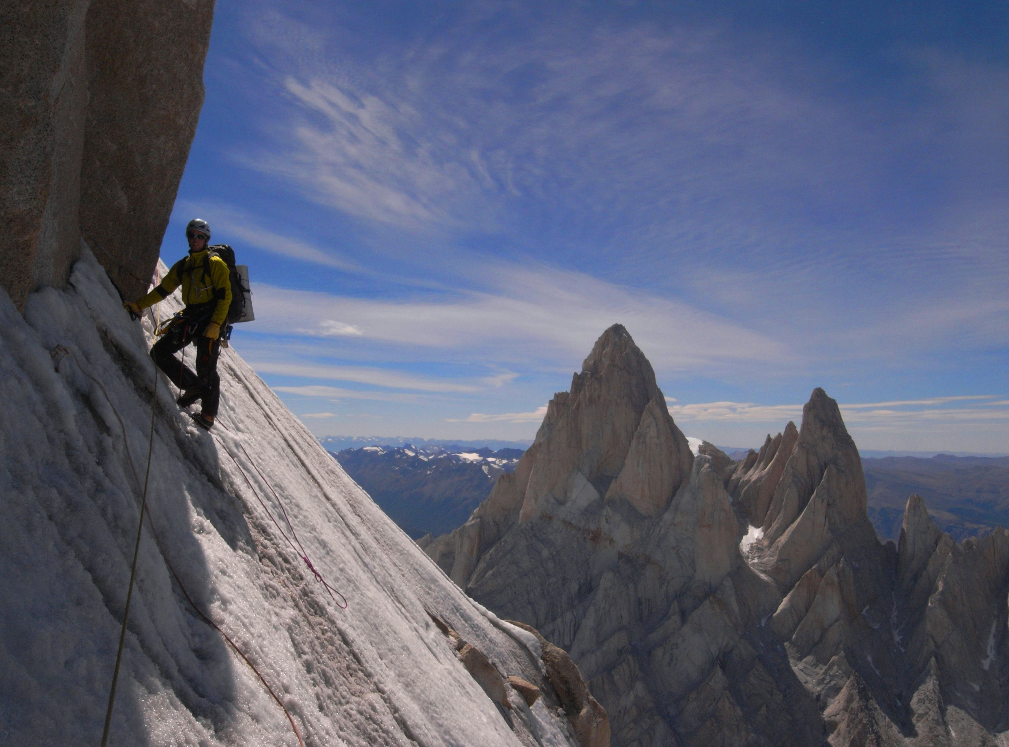 Kasper Berkowicz climbing Cerro Torre (Patagonia) with Fitz Roy in the background. Photo by: Kristoffer Szilas